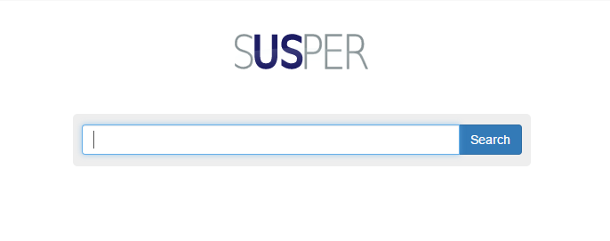 Susper